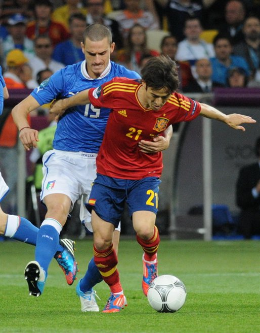 Leonardo Bonucci and David Silva at Euro 2012 final Spain-Italy